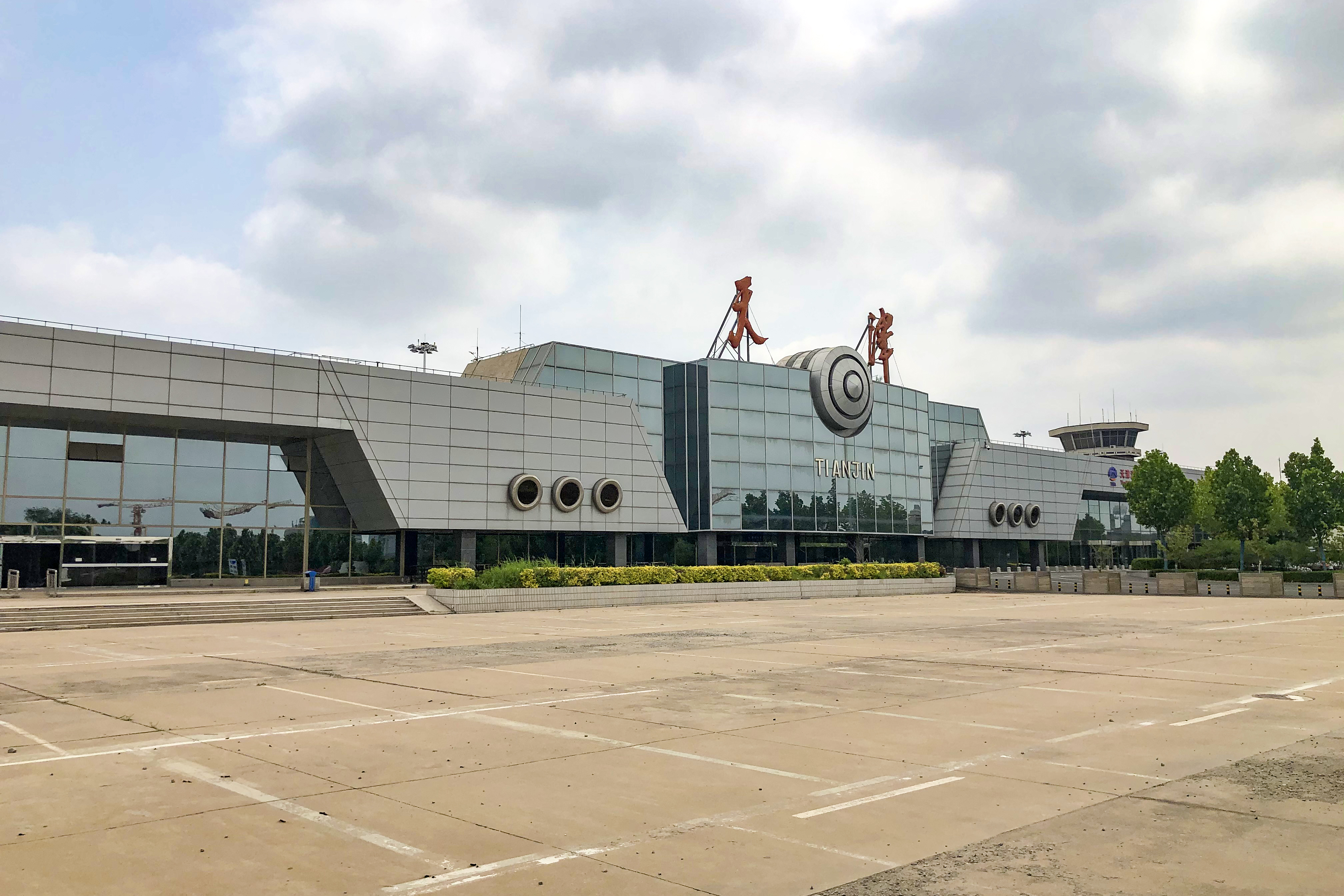 This terminal was built when ZBTJ was still known as "Zhangguizhuang Airport" - well, "Chang-kuei-chuang" is too early.